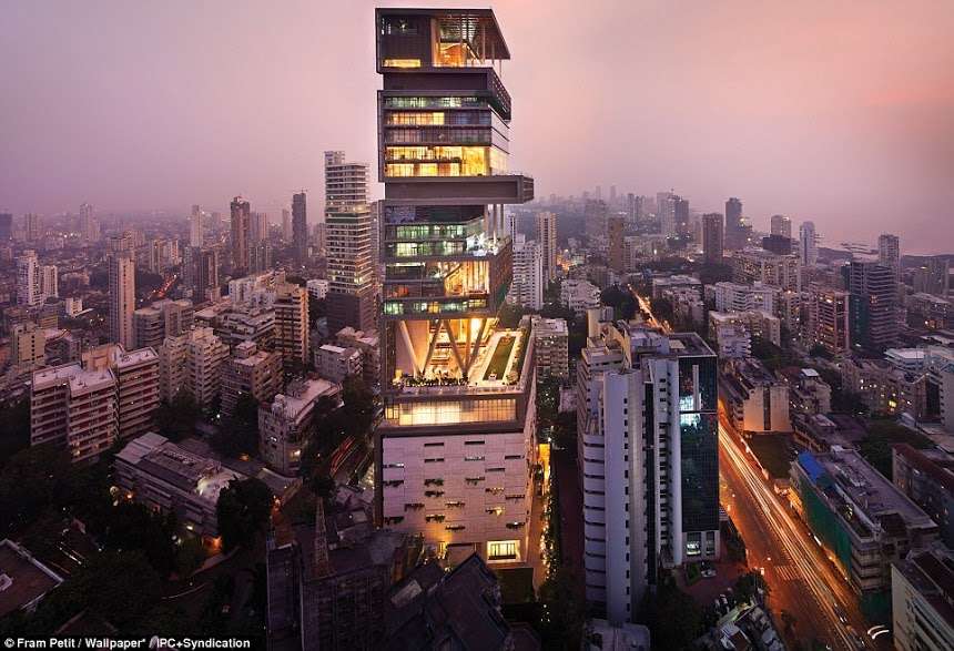 Mumbai_Skyscrapers